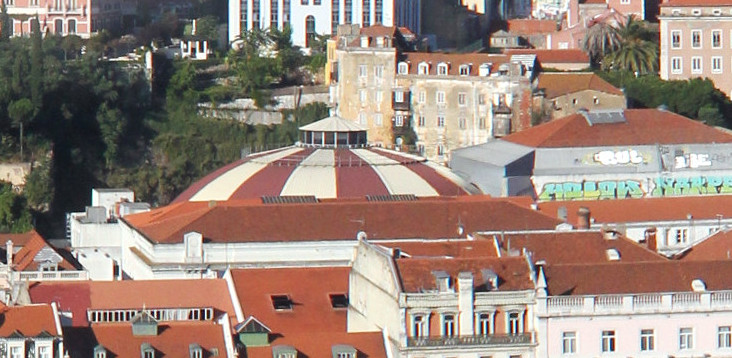 Coliseu de Recreios, seen from the gardens of San Pedro de Alcántara and the gardens of Antonio Nobre.